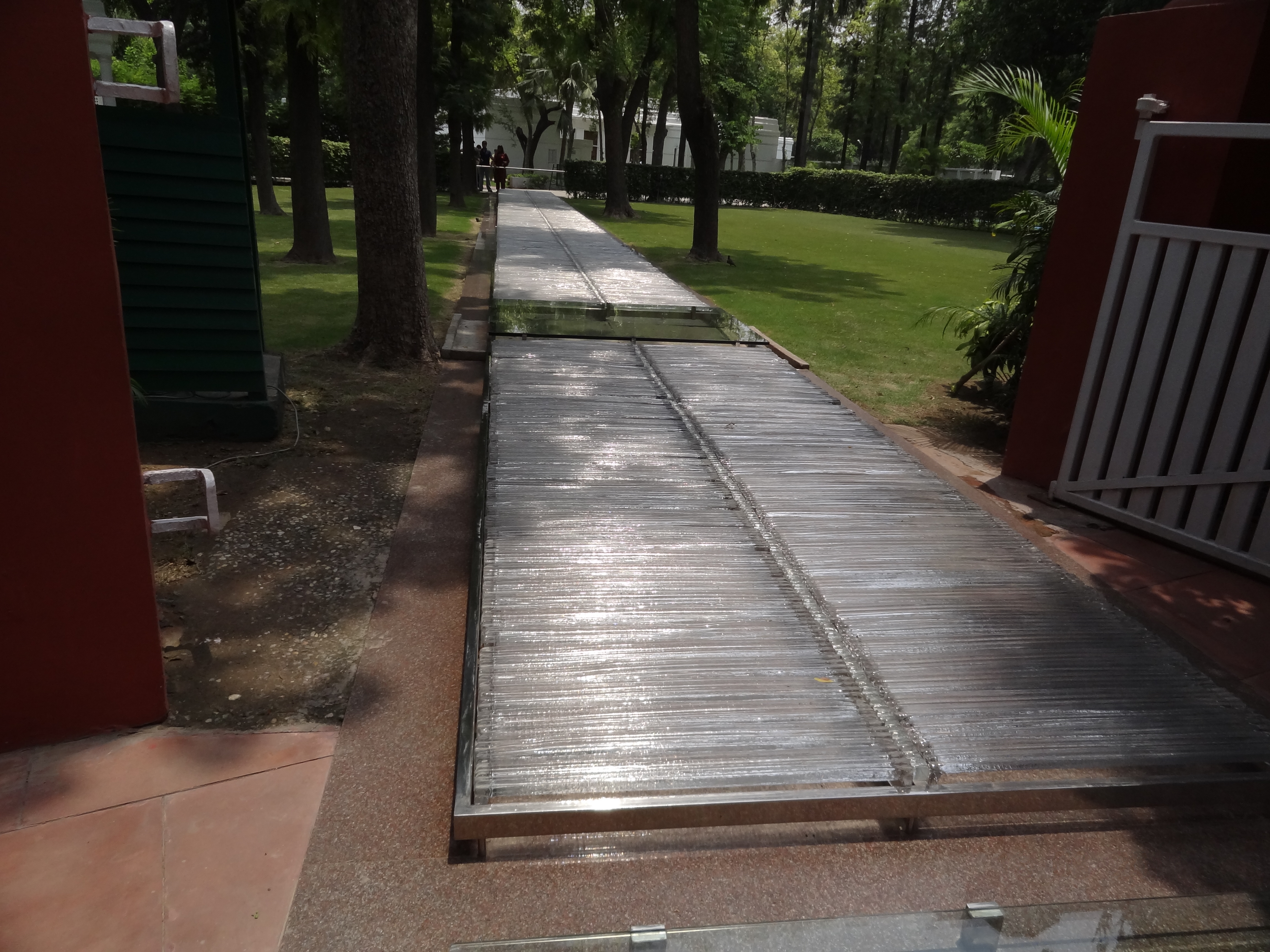 The Path of Martyrdom - As she proceeded towards 1, Akbar Road, on the Path of Martyrdom, presently covered by a glass top, she was fired upon by two security personnel on reaching the gate and sentry post.